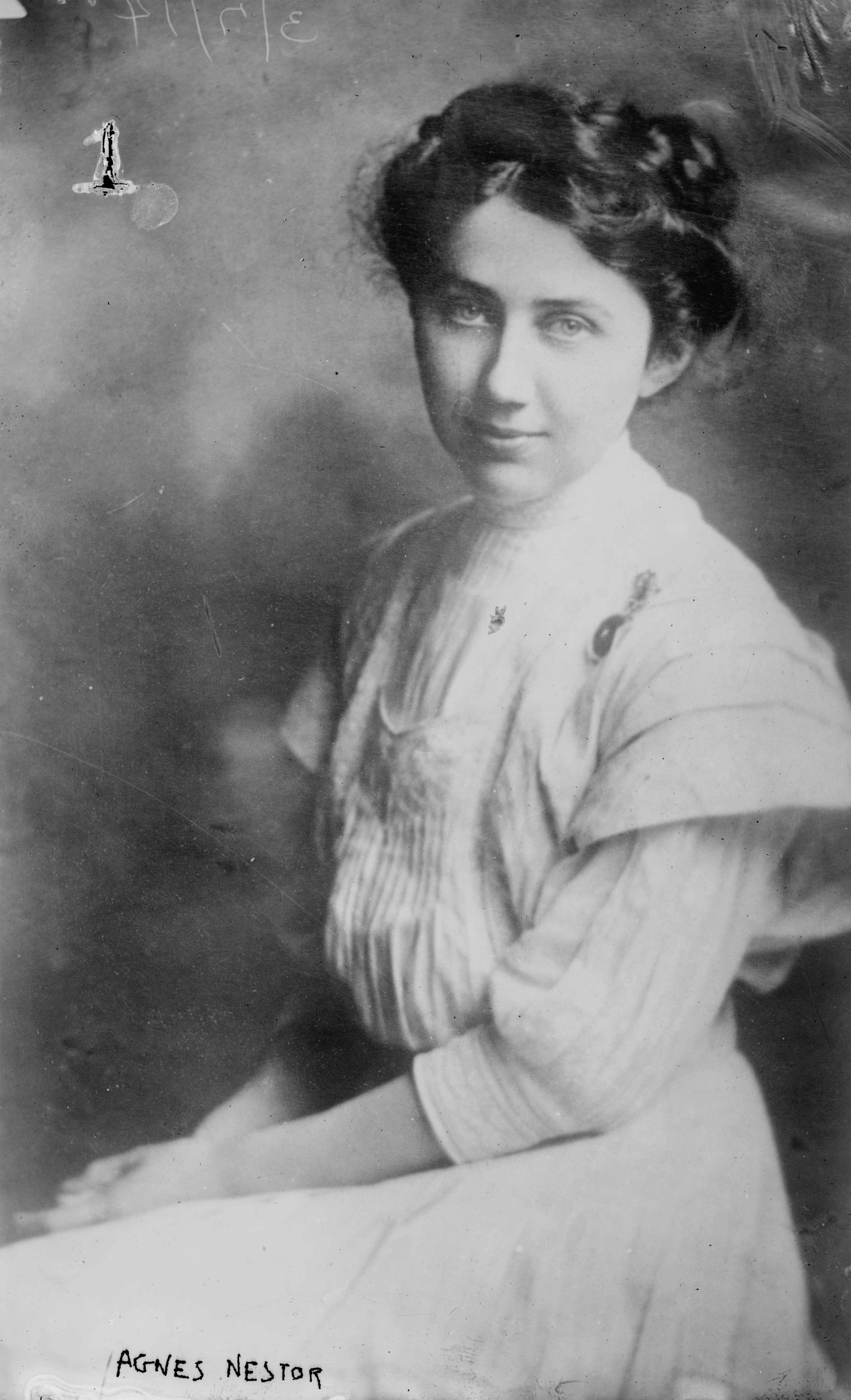 Photo shows suffrage and labor activist Agnes Nestor (1880-1948) who was the co-founder of the Women's Trade Union League (WTUL). (Source: Flickr Commons project, 2010) 1 negative : glass ; 5 x 7 in. or smaller.